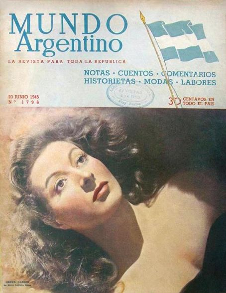 Greer Garson on the Argentinean magazine cover.